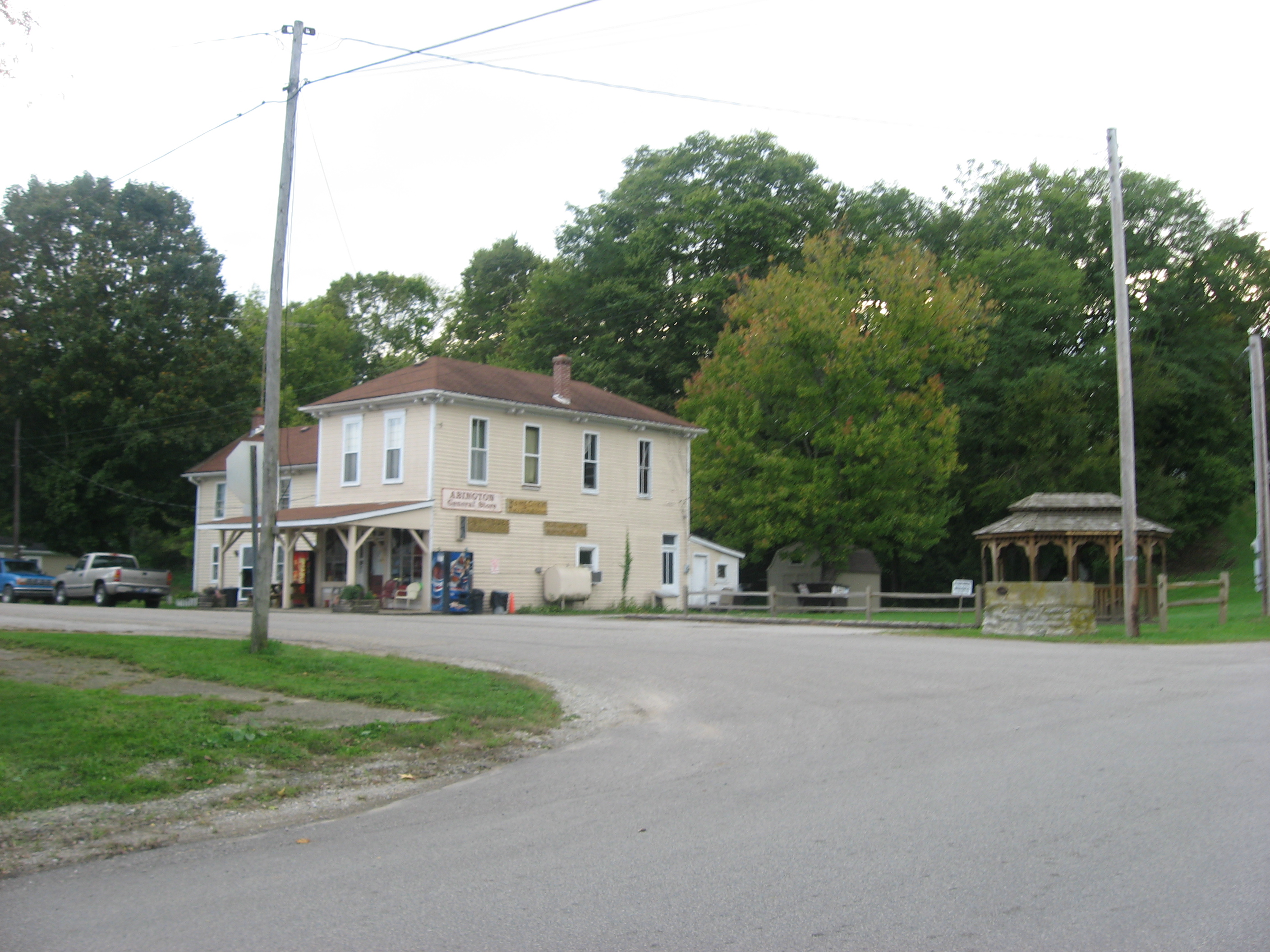 A scene in central Abington, Indiana, United States.